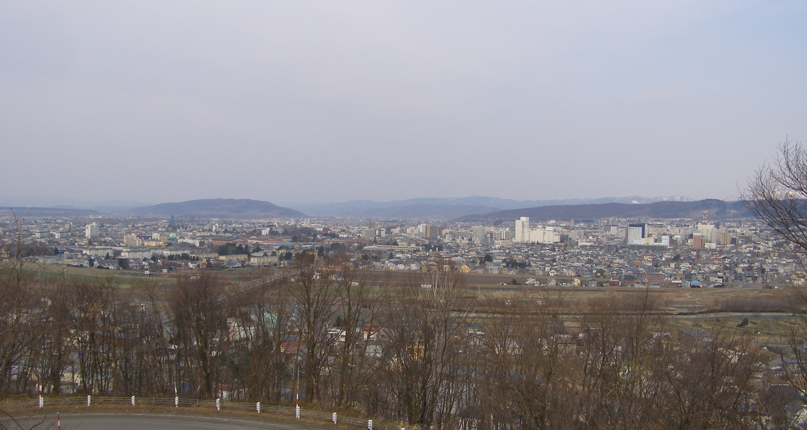 Kitami, Hokkaido.